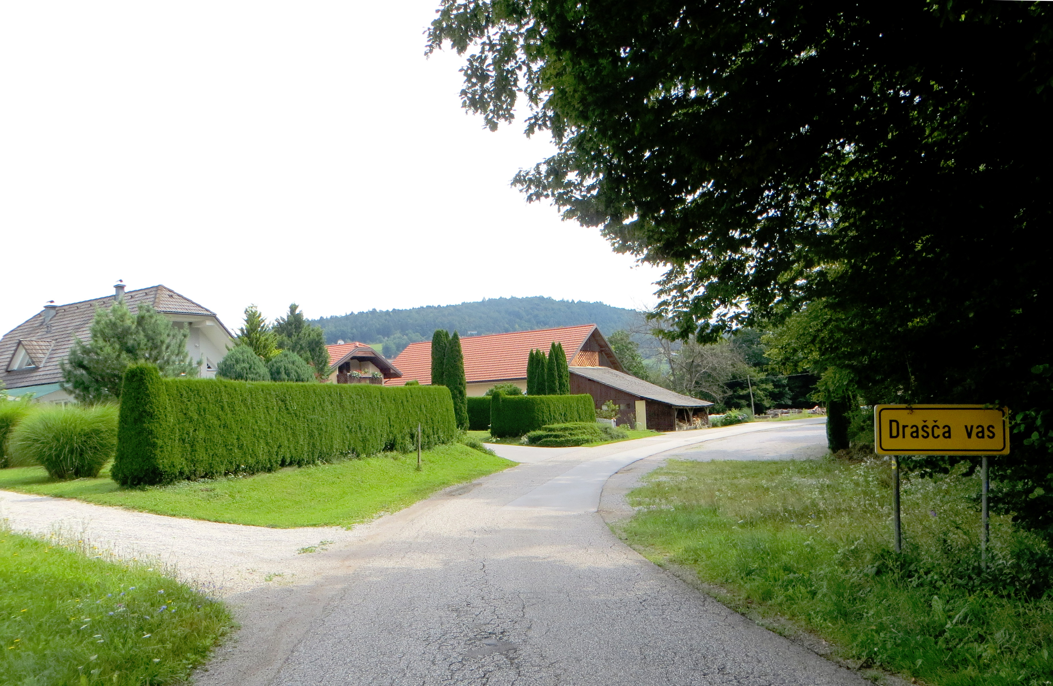 Drašča Vas, Municipality of Žužemberk, Slovenia